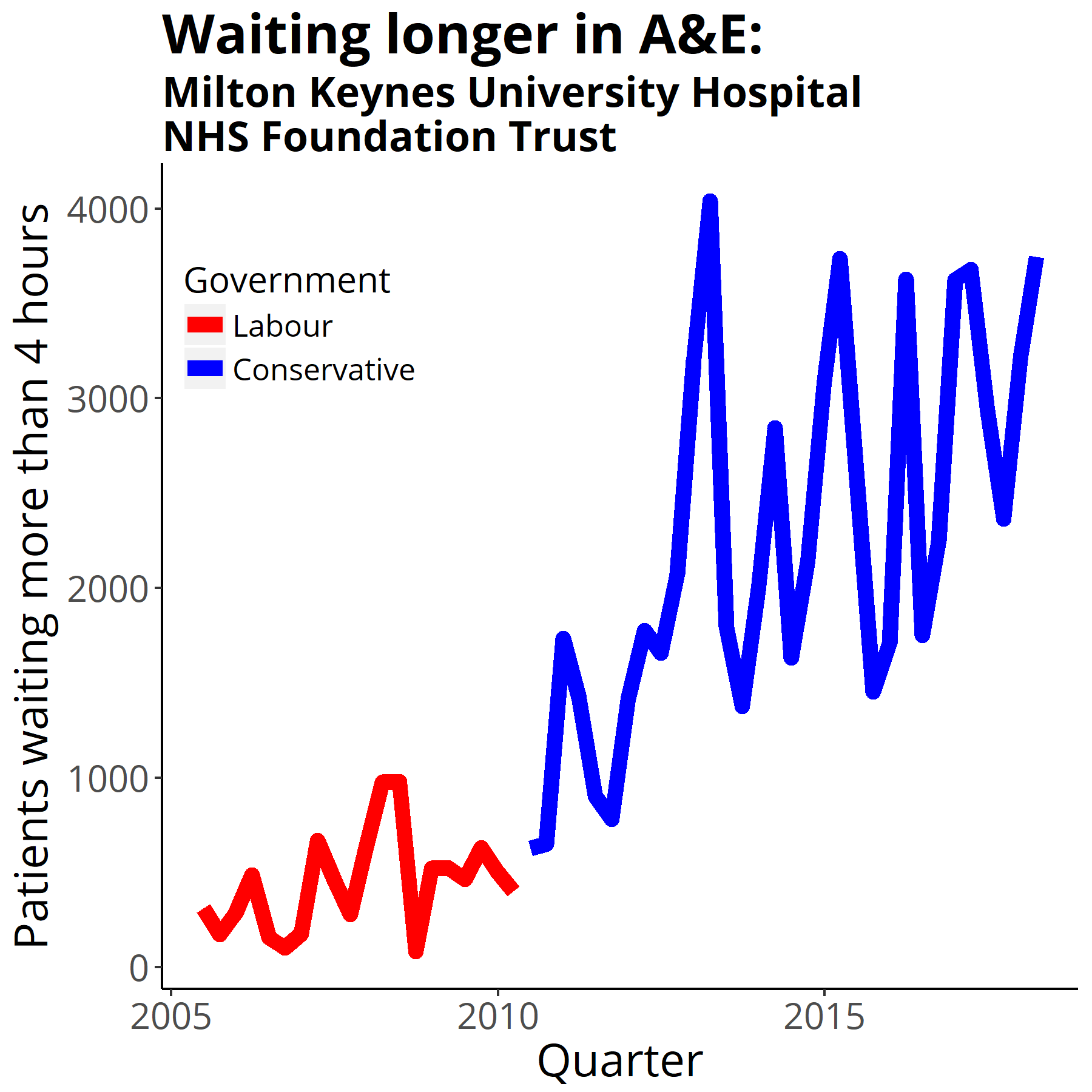 Four-hour target in the emergency department quarterly figures from NHS England Data from